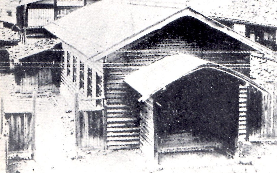 Building of Hirosaki Church